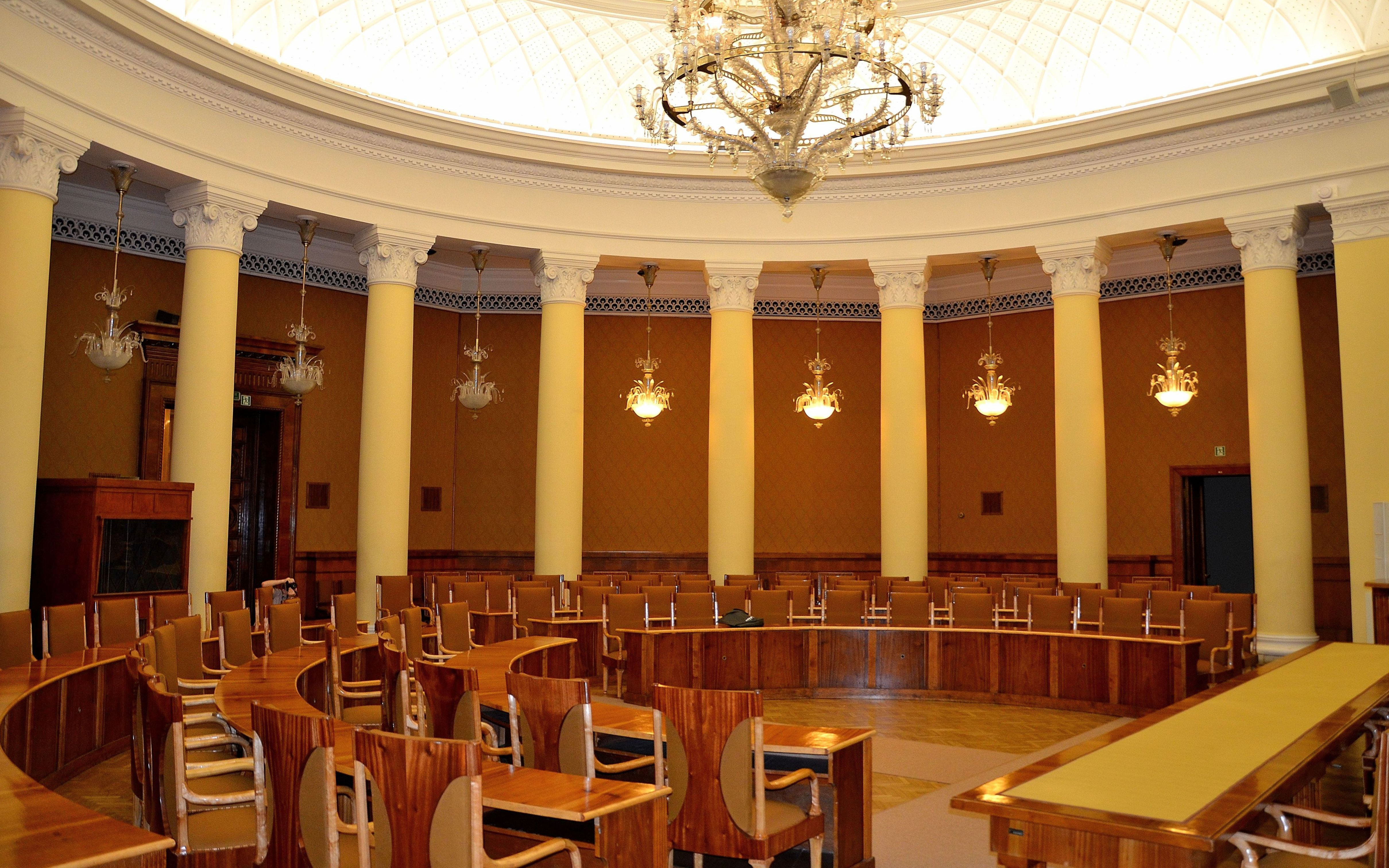 Lev Rudniev Hall at the Palace of Culture and Science in Warsaw